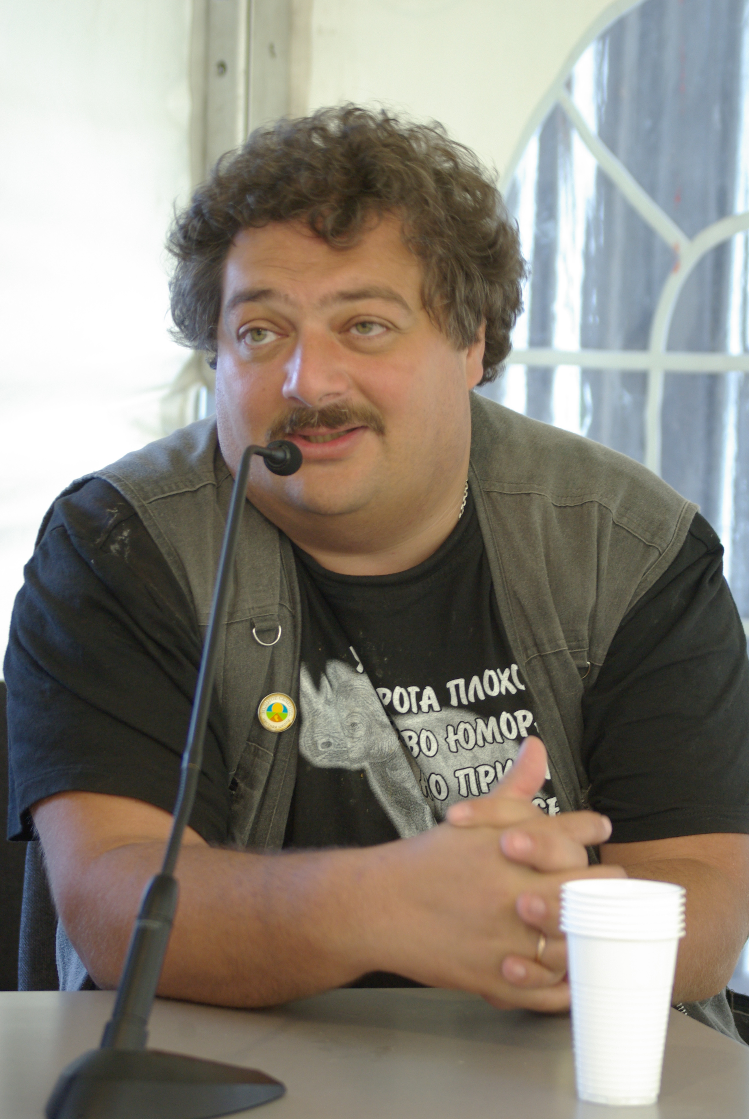 Russian writer Dmitrii Bykov at the 5 Moscow International Book Festival, 2010